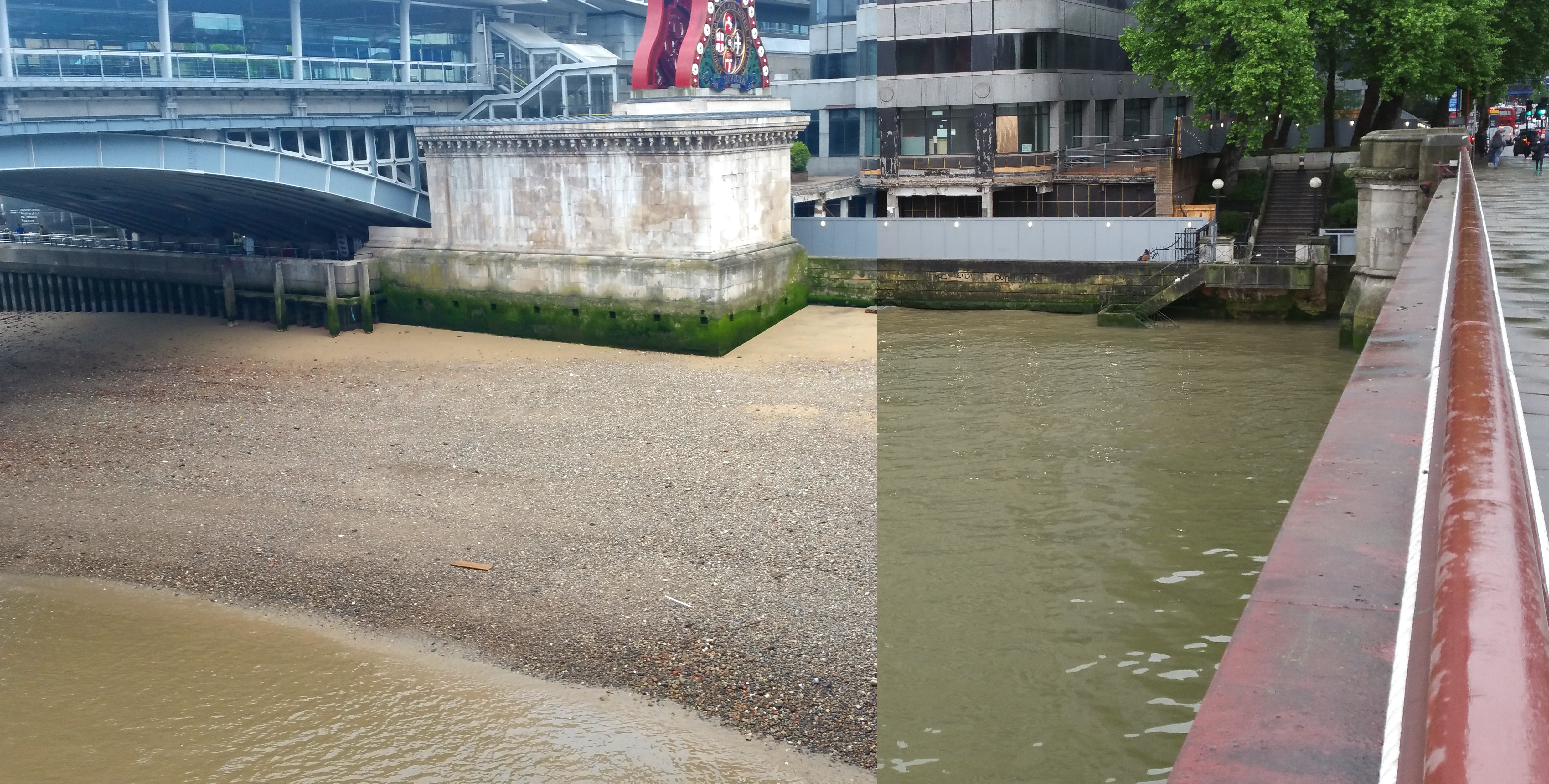 Waterstand of Thames at low tide (left) and high tide (right) in comparison at Blackfriars Bridge in London. Both original photos are my own work and released with CC-BY-SA 4.0 license.